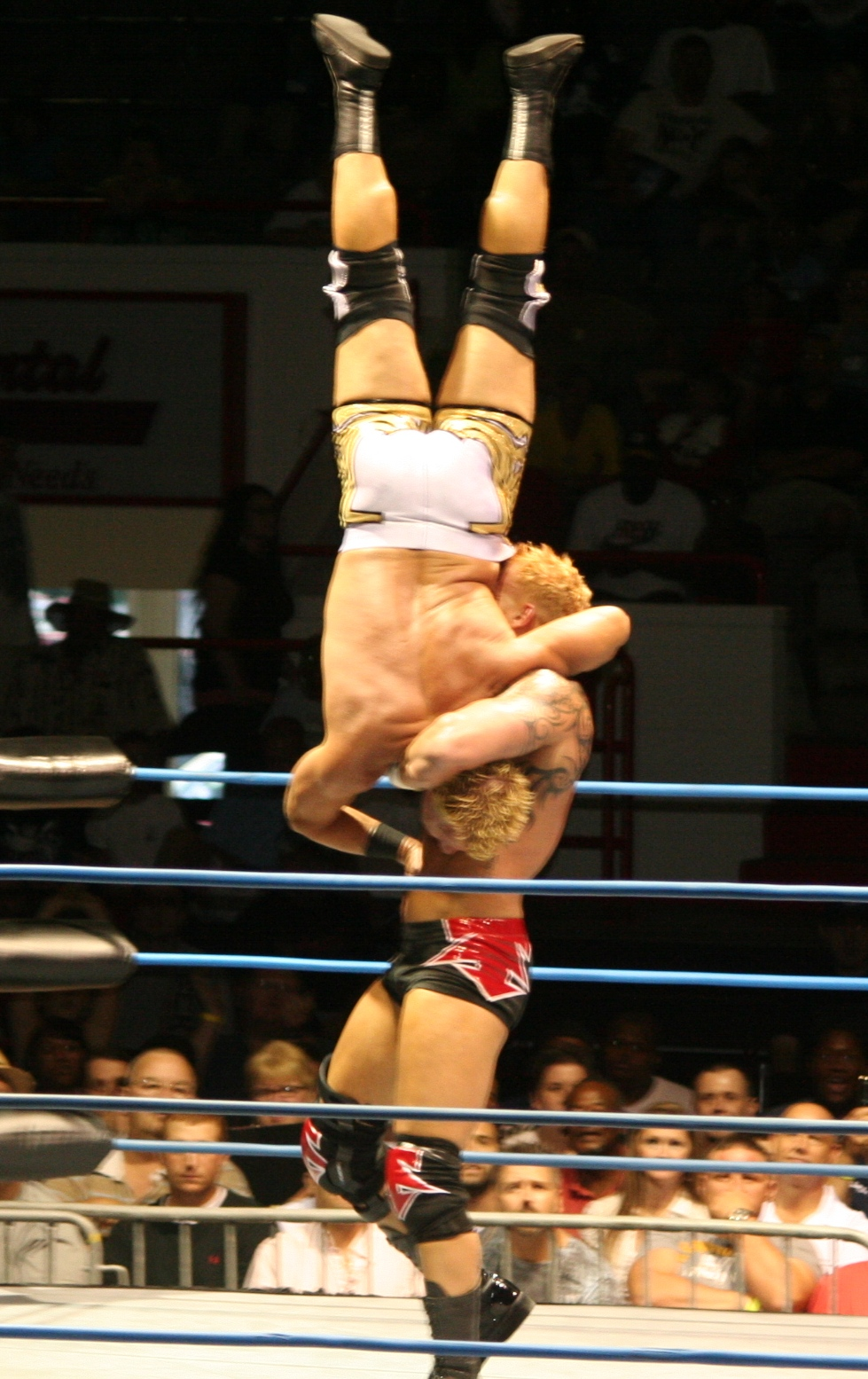 Professional wrestler Crimson suplexing Jeff Jarrett at a TNA live event.